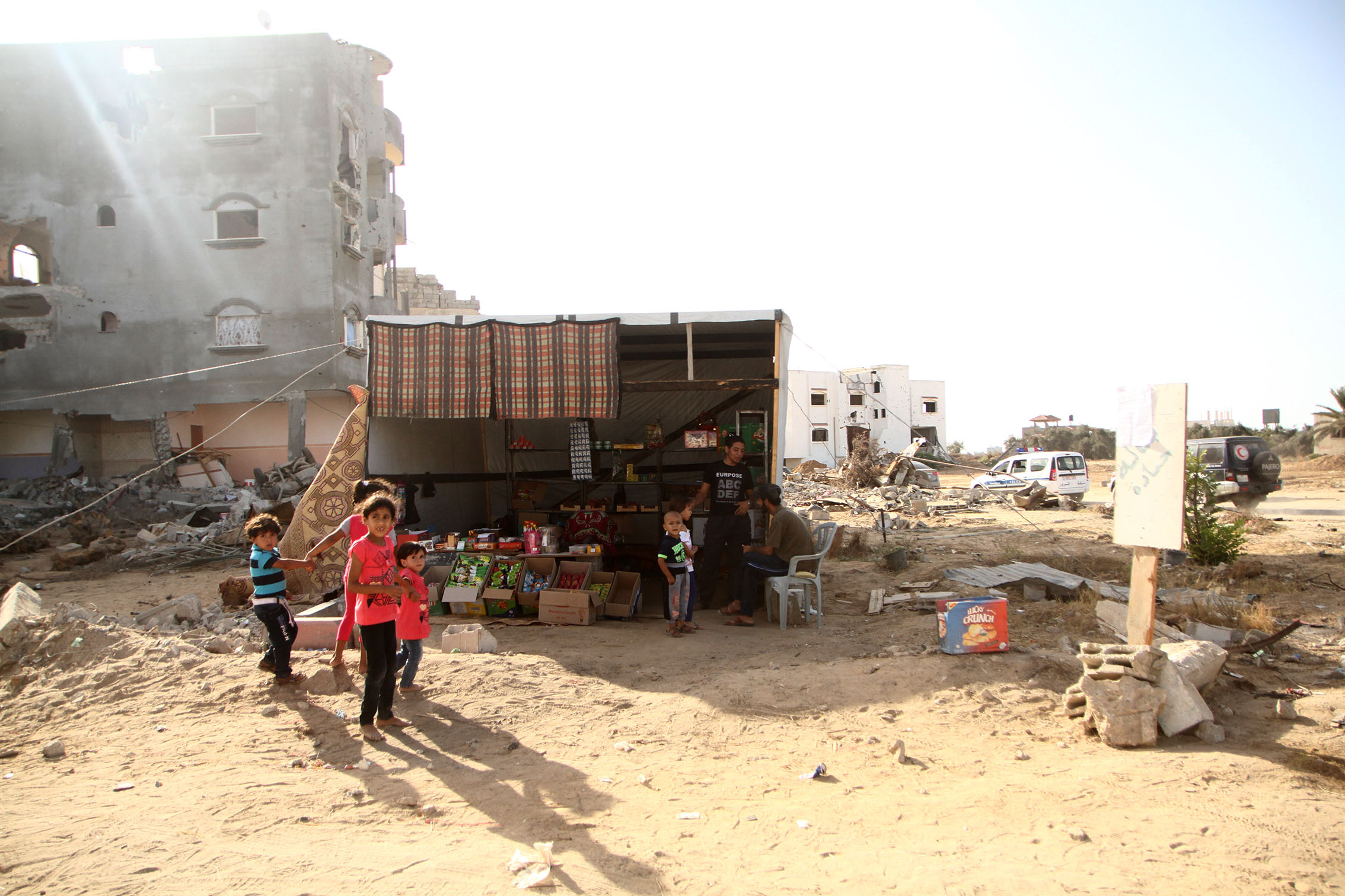 Gaza (Palestina), 25 de septiembre (Andes).- Franja de Gaza. Foto: Luis Astudillo C. / Andes